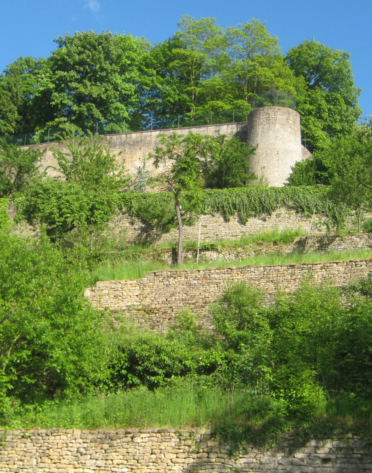 Description tour rempart Briey Date8 August 2011Sourcemon apareil photoAuthorAimelaimePermission (Reusing this file) tour rempart Briey